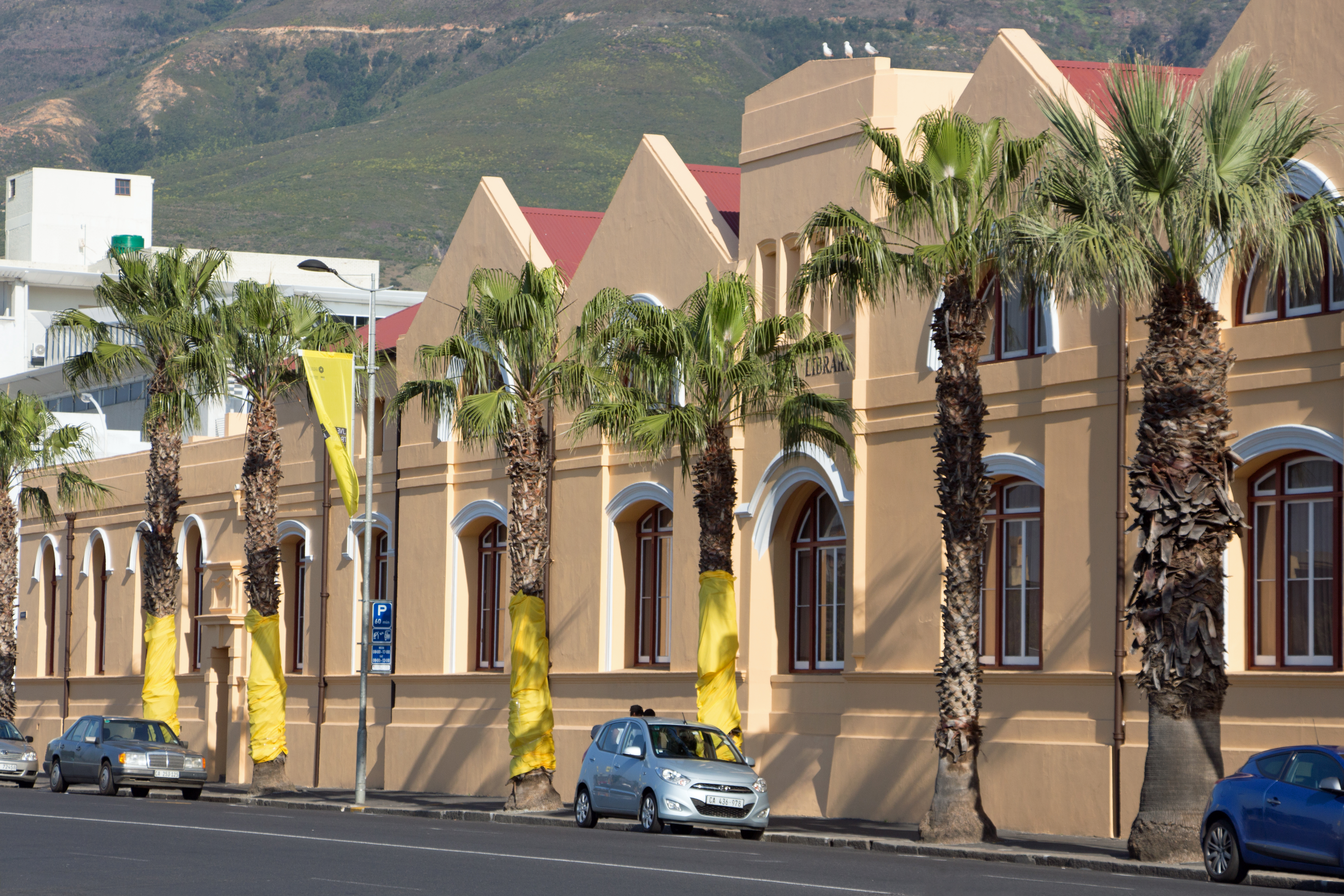 Central Library, Old Drill Hall, Darling Street, Cape Town with street dressed up in yellow for World Design Capital Cape Town 2014 This media shows a South African Protected Site with SAHRA file reference 9/2/018/0113.